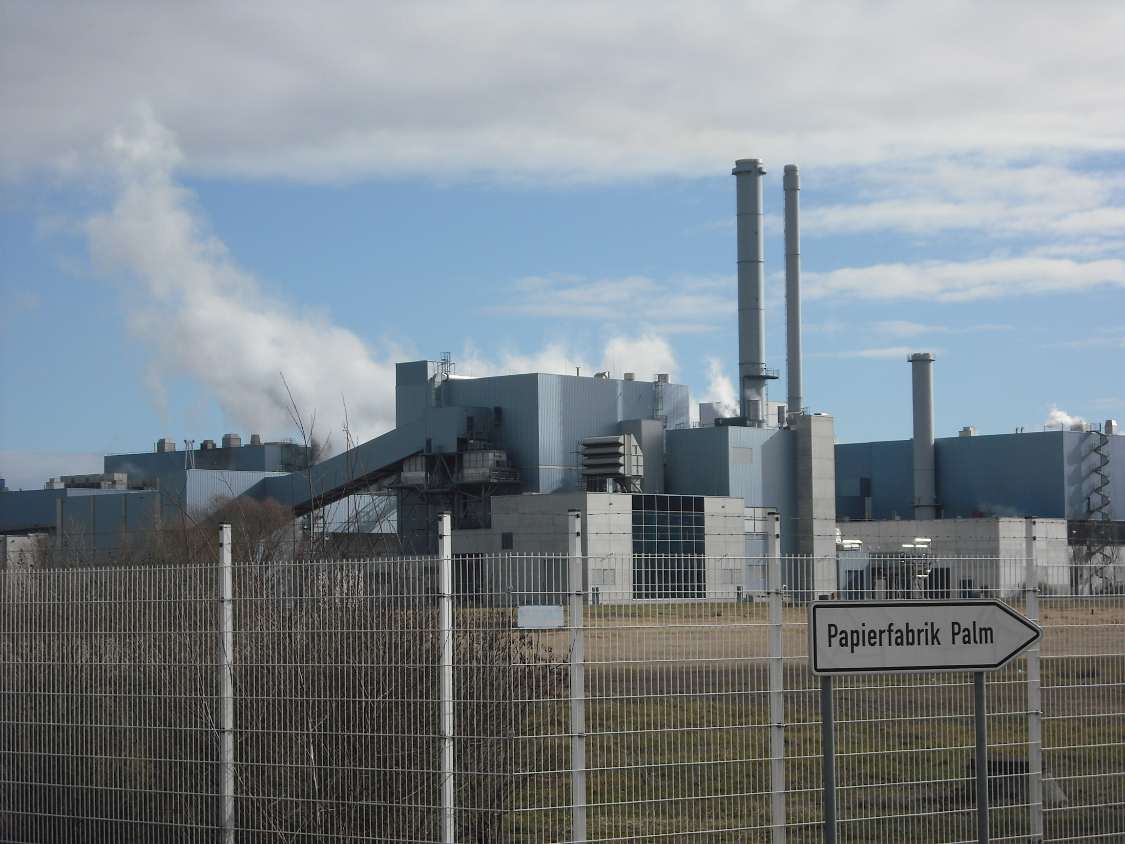 Woerth Palm factory